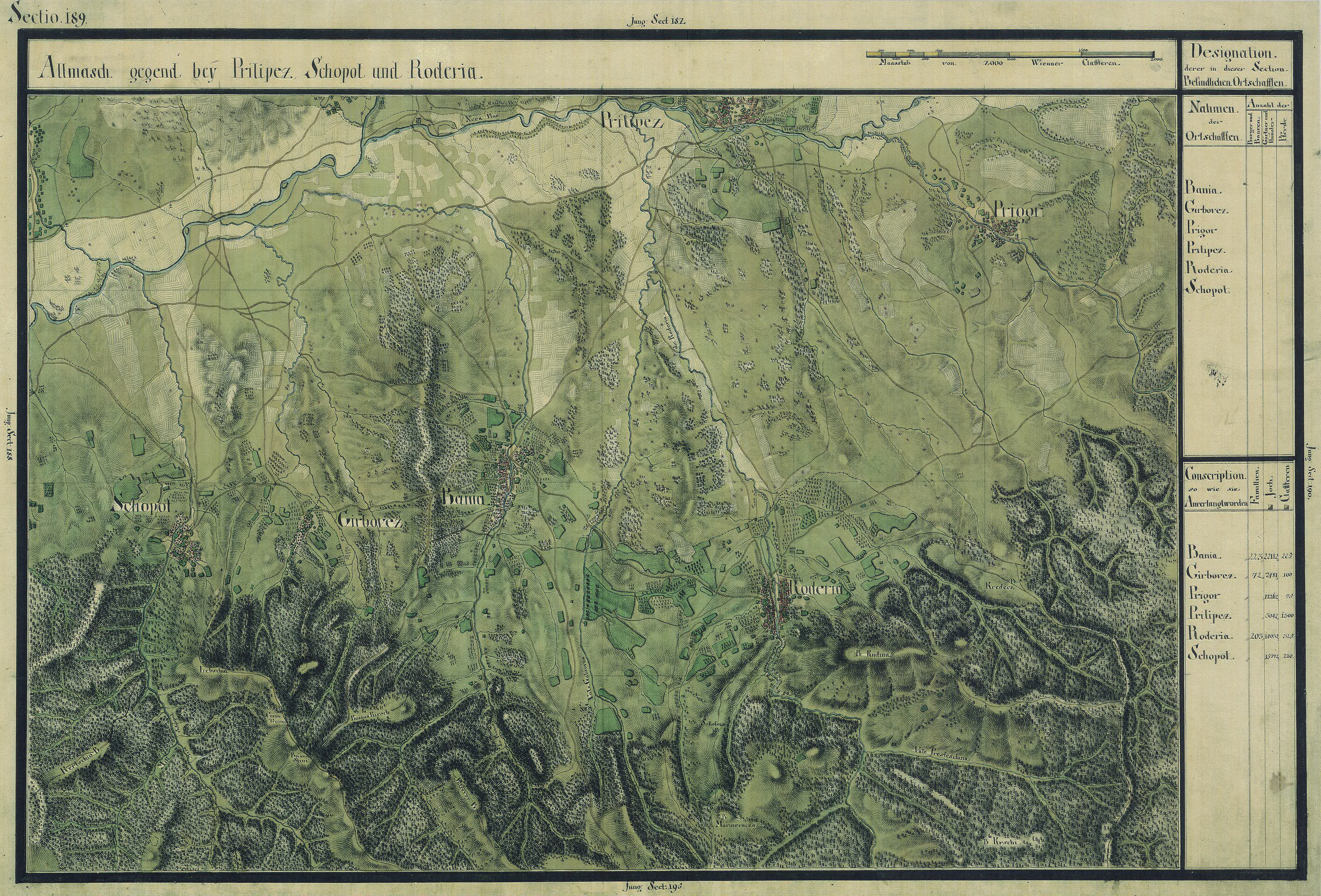 The Banat region in the cadastral maps: Josephinische Landesaufnahme, 1769-72. Josephinische Landaufnahme pg189